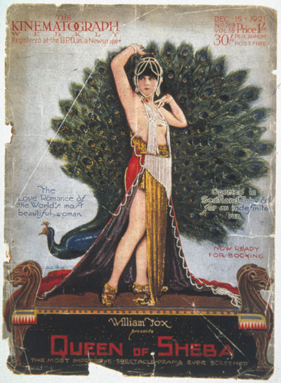 THE QUEEN OF SHEBA, December 1921 Reproduction of the cover of Kinematograph (December 1921), showing Betty Blythe as The Queen of Sheba.